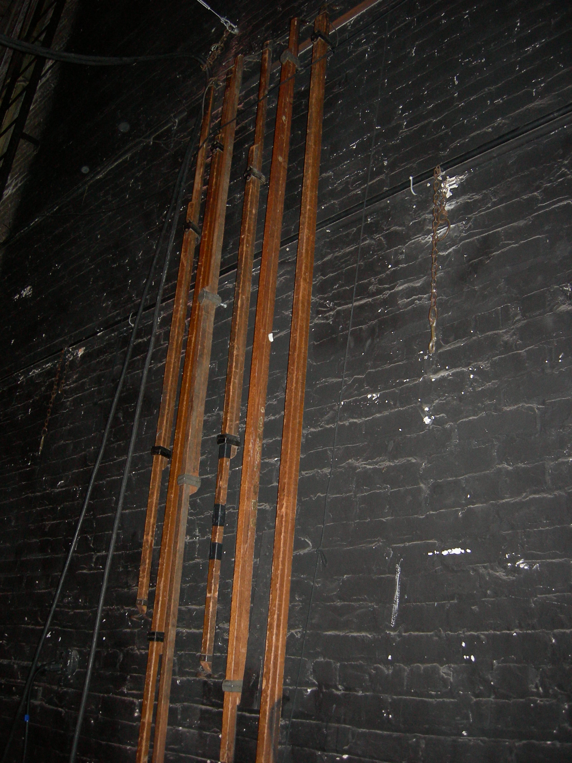 Poles used to hold up flats for stage sets. At stage right of the Moore Theatre, Seattle, Washington.